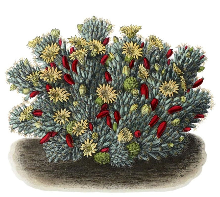 Mammillaria prolifera